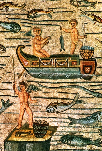 Pavement de la basilique d'Aquilée, pêcheurs